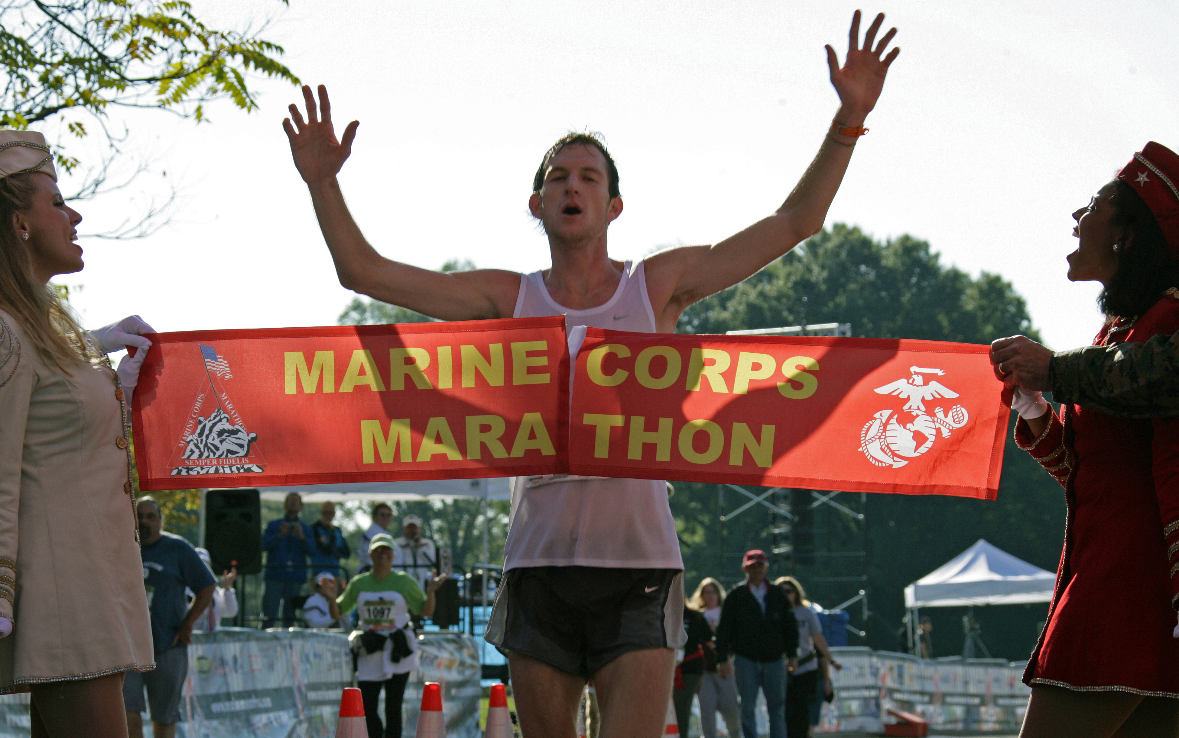 Andrew Dumm, 23, won the 33rd Marine Corps Marathon with a time of 2:22:42. It was the first marathon the Arlington,Va., native ran. Andrew's brother, Brian, finished a few minutes behind him in fifth place.